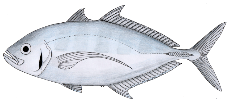 Hand drawn and coloured image of the barcheek trevally, Carangoides plagiotaenia. Based on Fishbase photos.